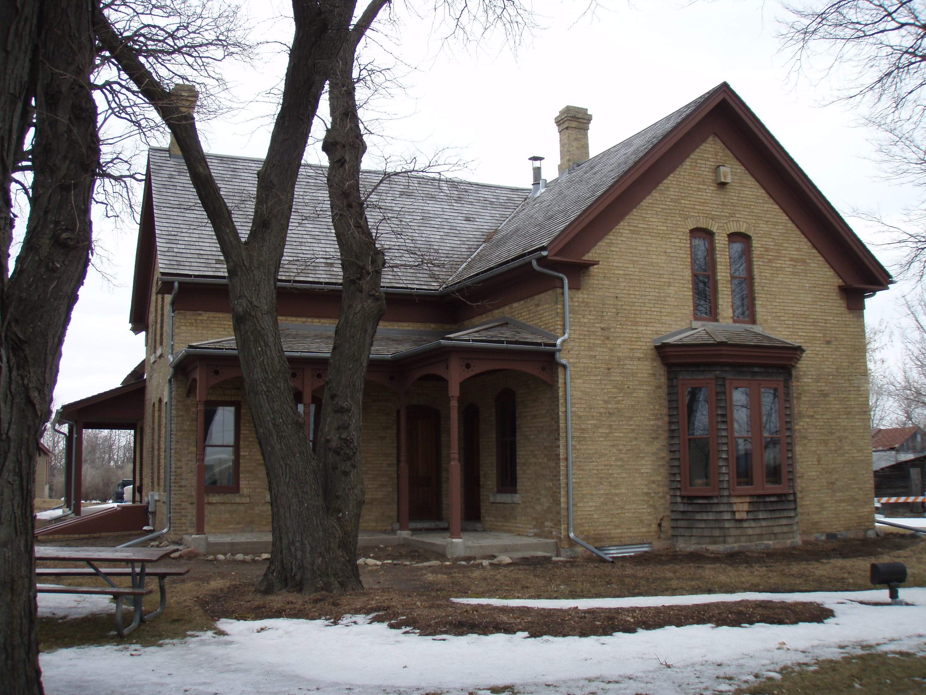 John R. Cummins Farmhouse in Eden Prairie, Minnesota.